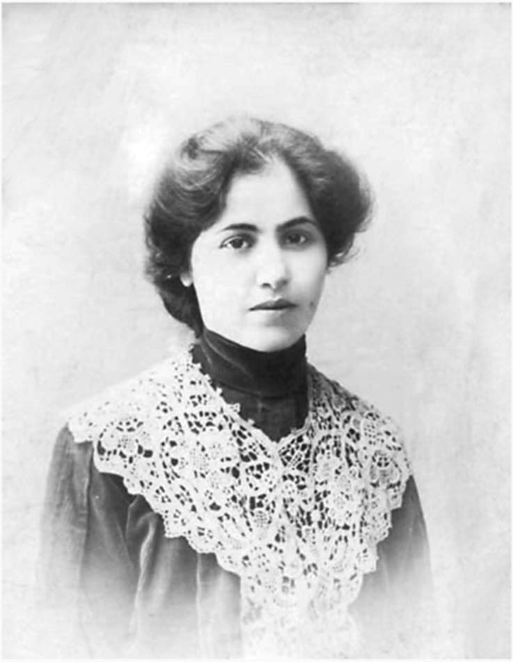 Zabel Yesayan